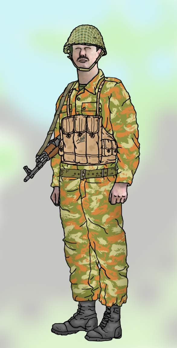 A Syrian Special Forces soldier (Commando), during the October war of 1973 (Yom Kippur War).